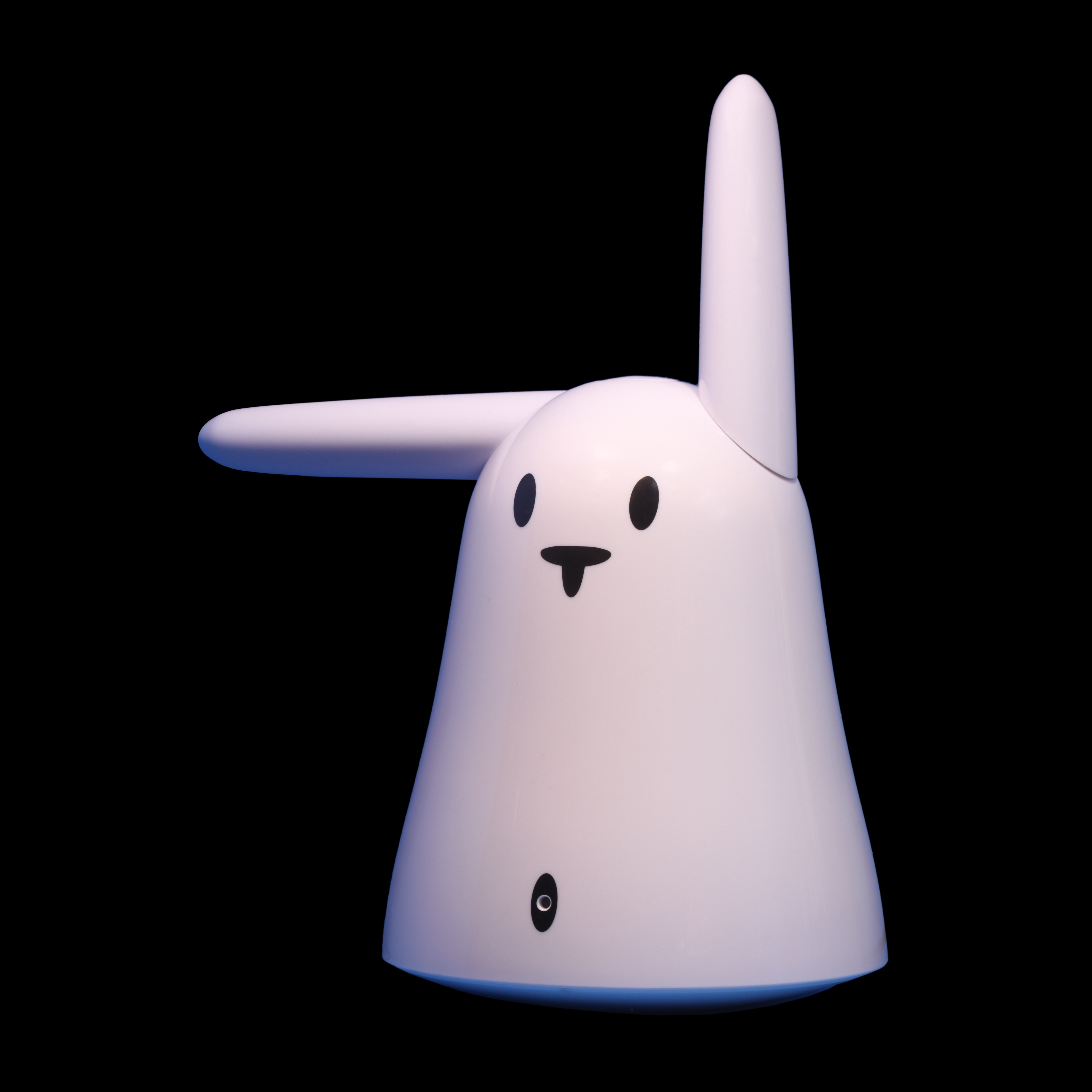 Nabaztag On display at the Musée Bolo, EPFL, Lausanne. The making of this document was supported by Wikimedia CH. (Submit your project!) For all the files concerned, please see the category Supported by Wikimedia CH.